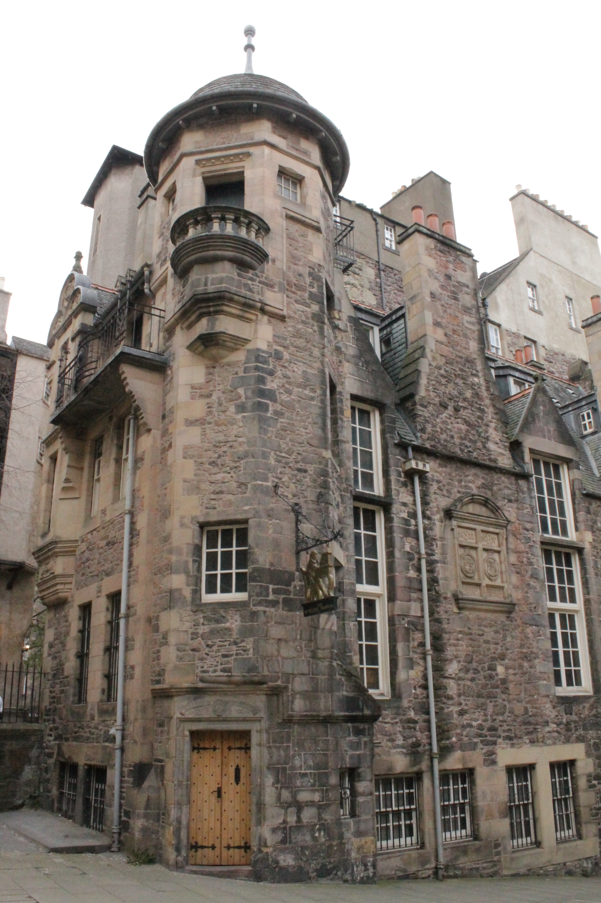 Lady Stair's House (the Writers Museum), Lawnmarket, Edinburgh